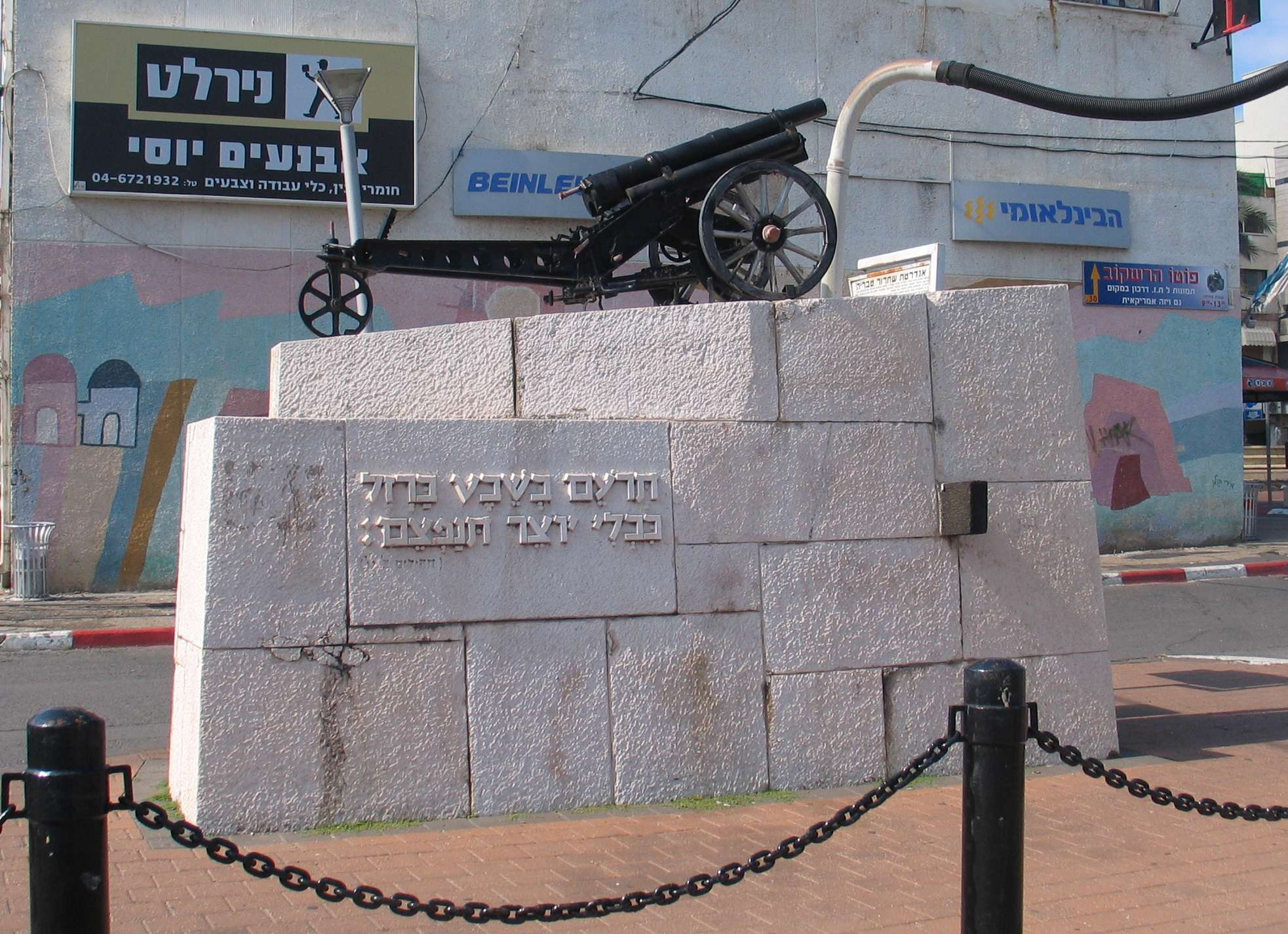 Independence War memorial in Tiberias, Israel.